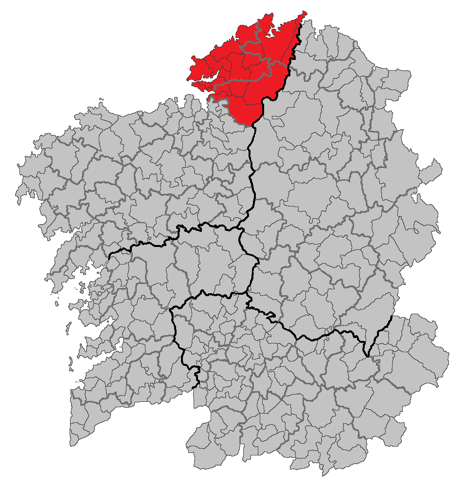 Metropolitan Area Ferrol